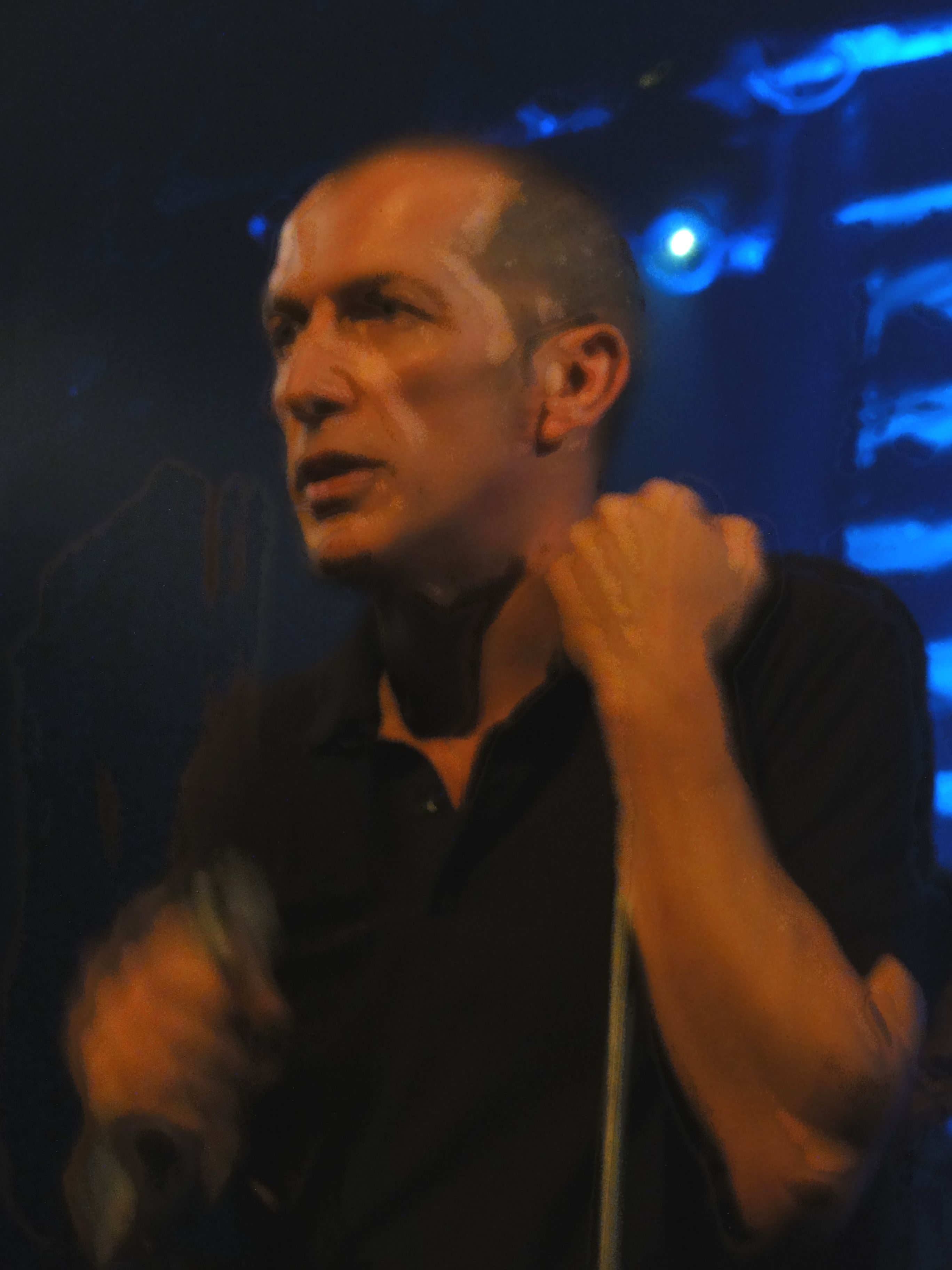 Miossec, in concert in Lausanne, at the Docks, January the 28th of 2012